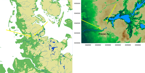 map of Danevirke landscape